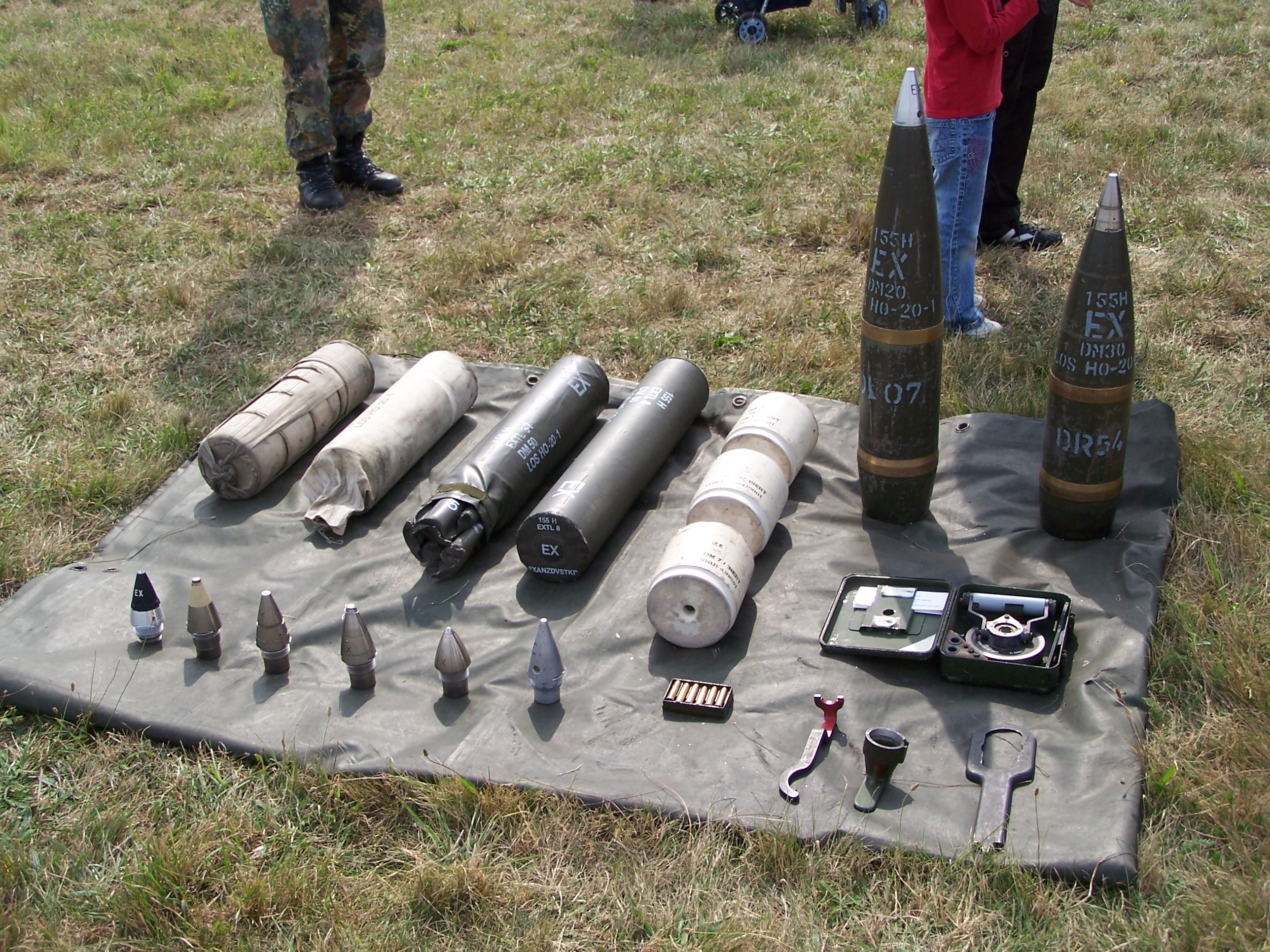 Shells of a German Army PzH 2000 on static display